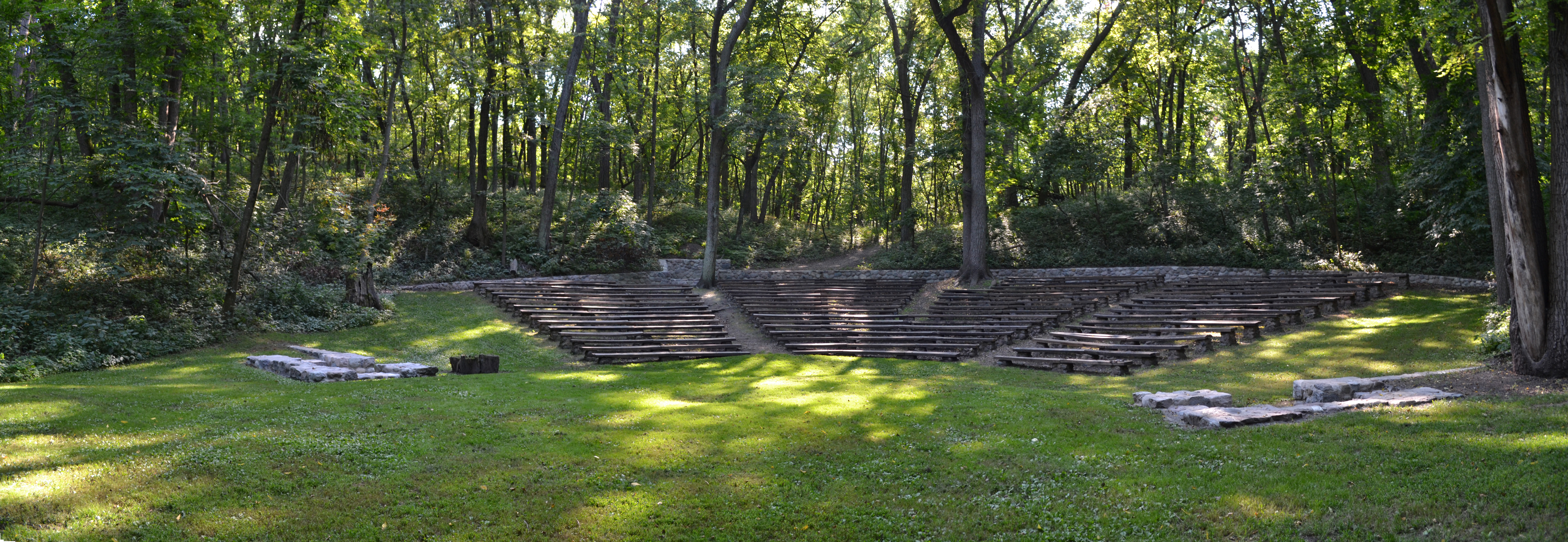 Pilot Knob State Park, Amphitheater (Area 4), South of the junction of Iowa Highways 9 and 332 Forest City